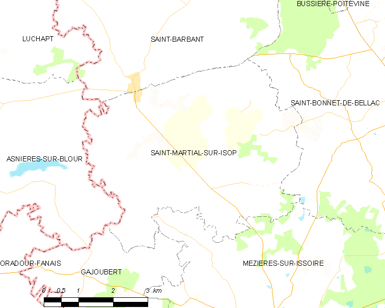 Map of French municipality Saint-Martial-sur-Isop